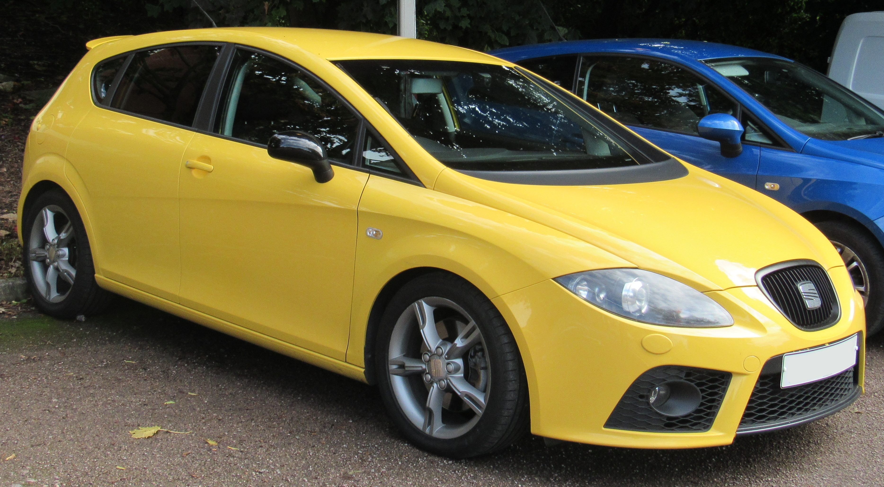 2007 SEAT Leon FR T FSI 2.0 Taken in Leamington Spa